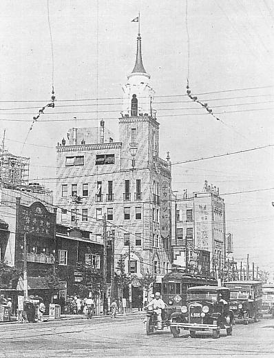 Tokyo Underground Railway Building circa 1930